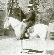 Alexander Shepherd in Batopilas, Mexico. Taken ca. 1885. In the public domain.